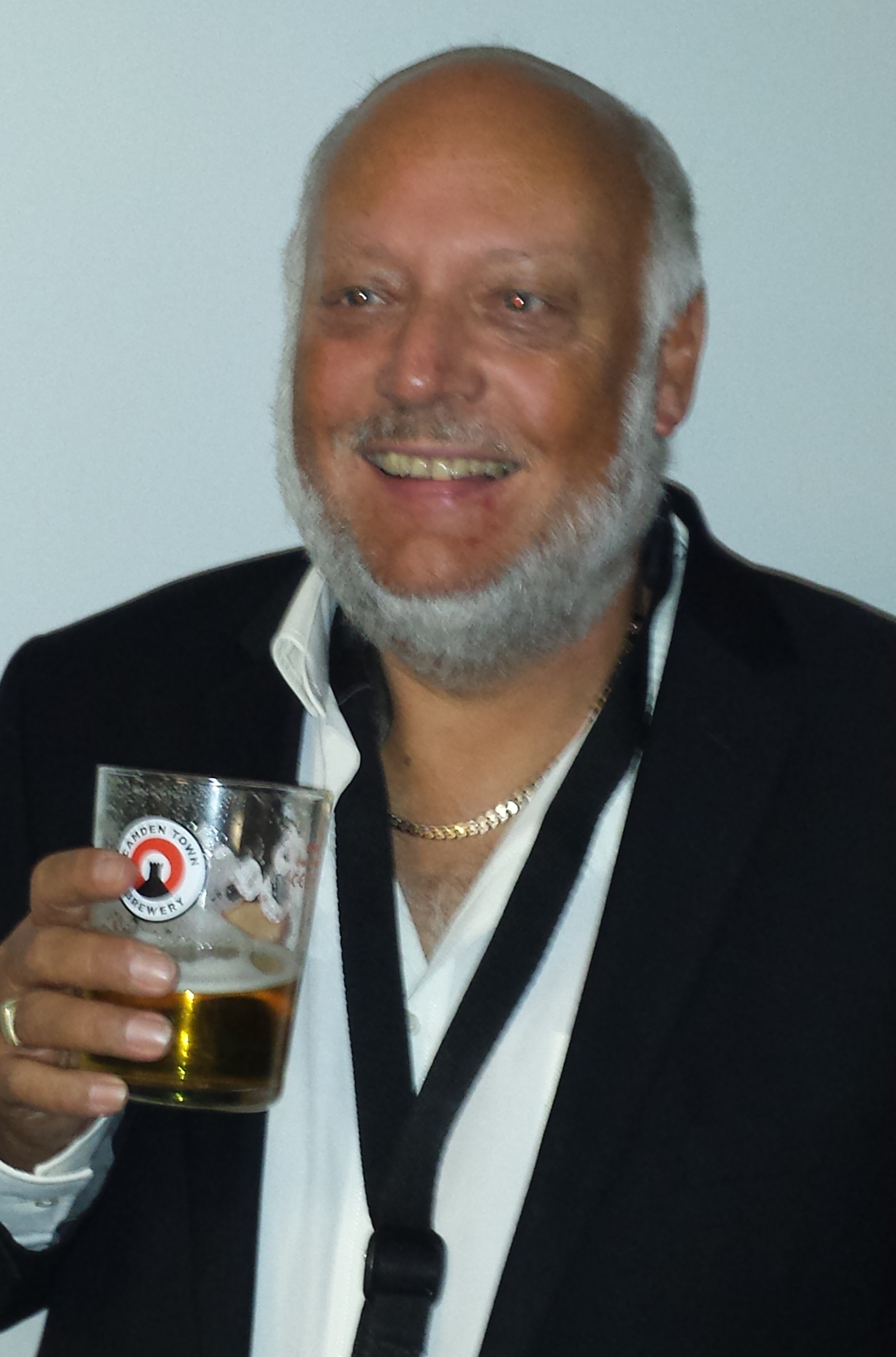 Pete Allen at Jazz concert at Deanwood Golf Club 16th February 2020